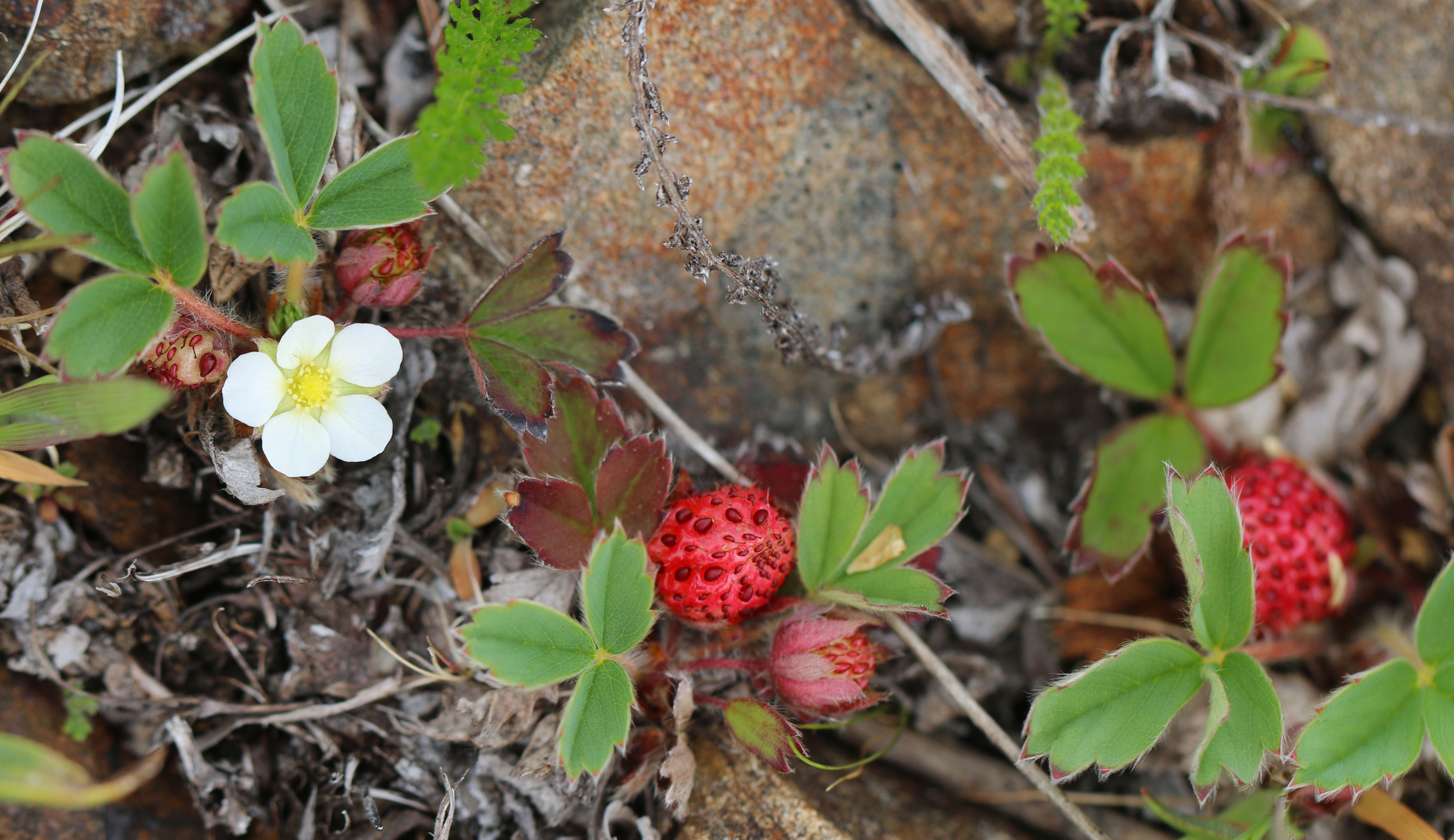 Coastal strawberry (Fragaria chiloensis) You are free to use this image with the following photo credit: Peter Pearsall/U.S. Fish and Wildlife Service